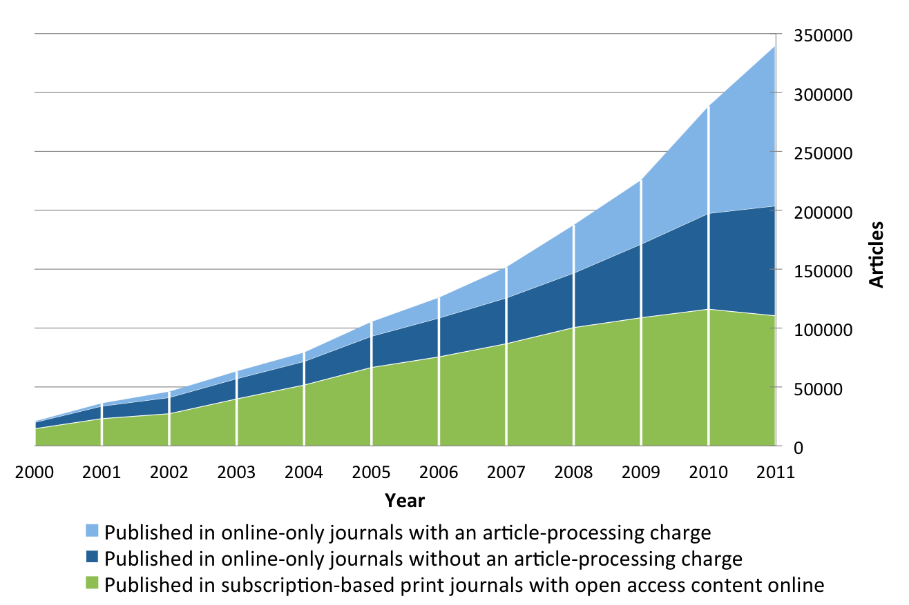 Annual volumes of articles in full immediate open access journals, split by type of open access journal.